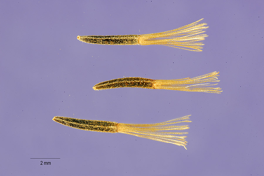 Seeds of Chromolaena odorata